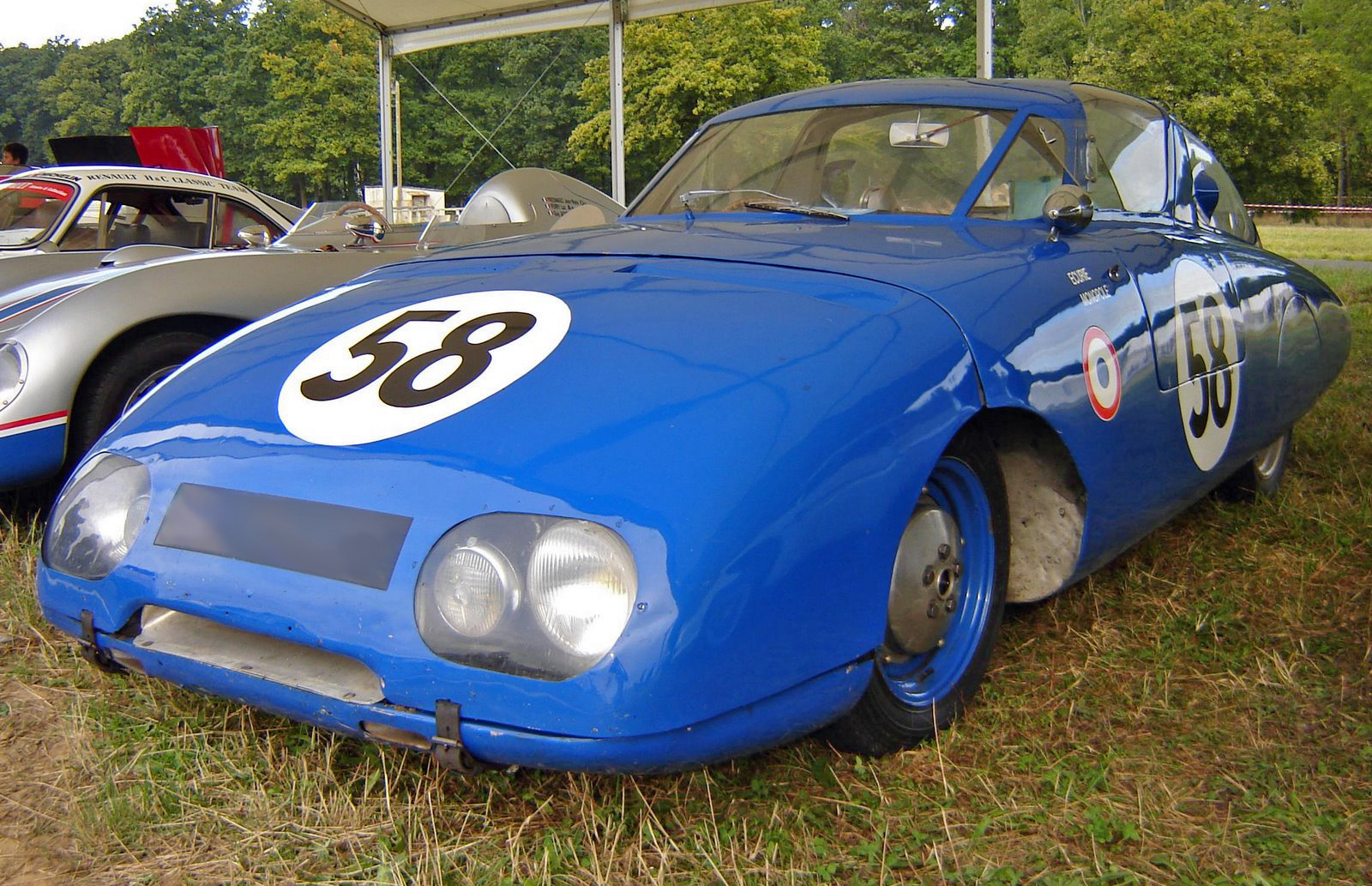 1956 Panhard-Monopole X86, seen at the Autodrome de Linas-Montlhéry, 2009